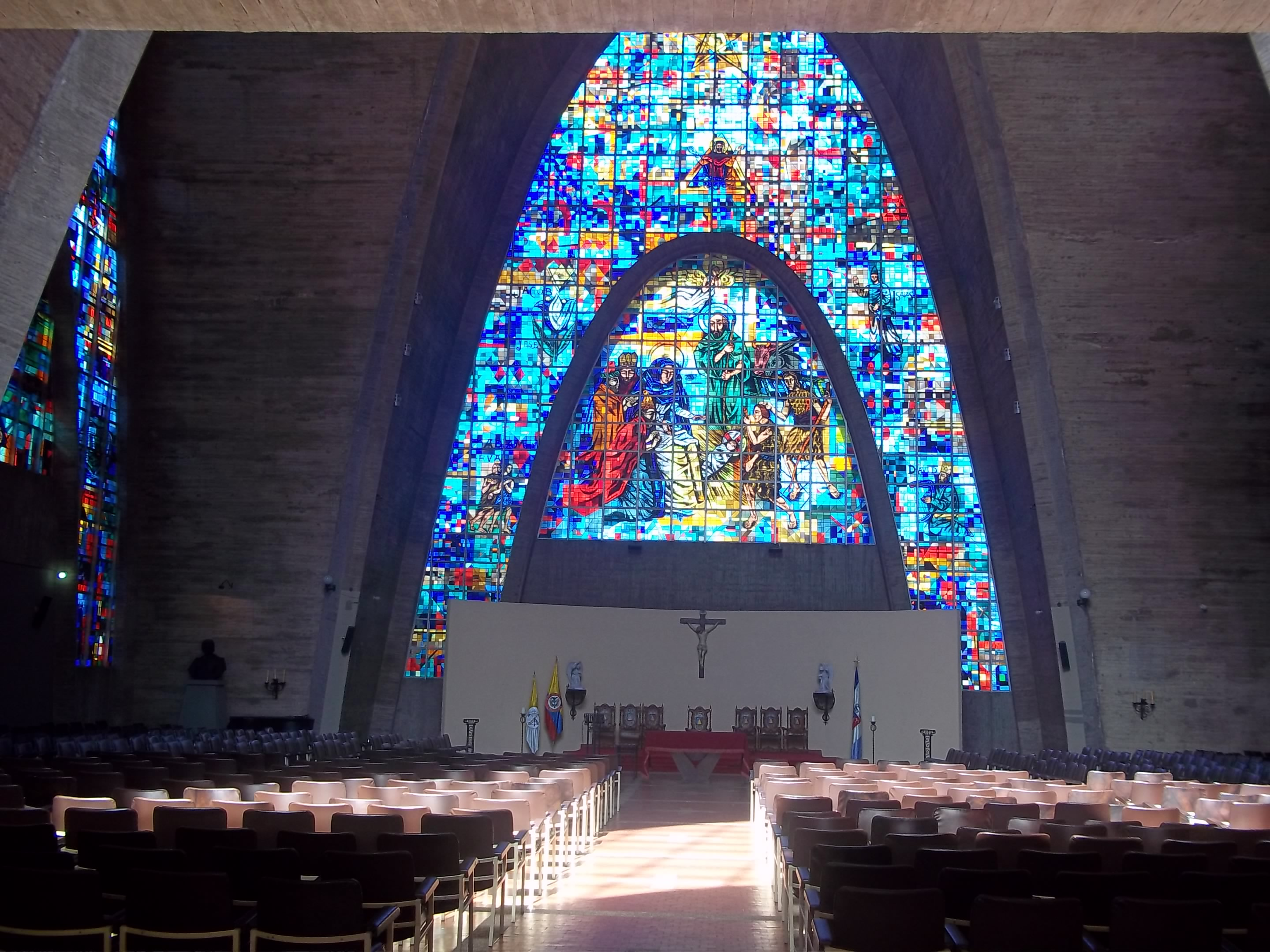 Interior of the chapel of the La Salle University in Chapinero